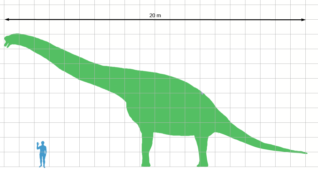 Size comparison of Giraffatitan brancai to a human. Each grid segment represents 1 square meter.